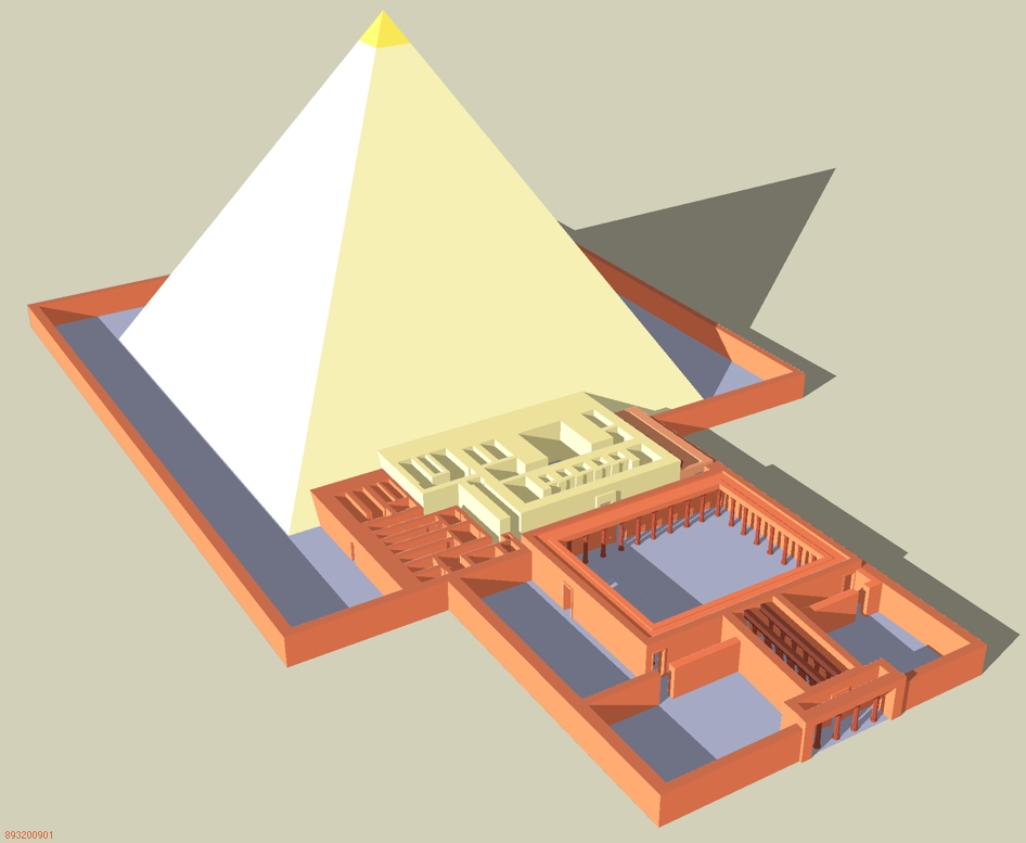 Restored view of Neferirkare's pyramid and temple at Abusir - 5th dynasty of Egypt